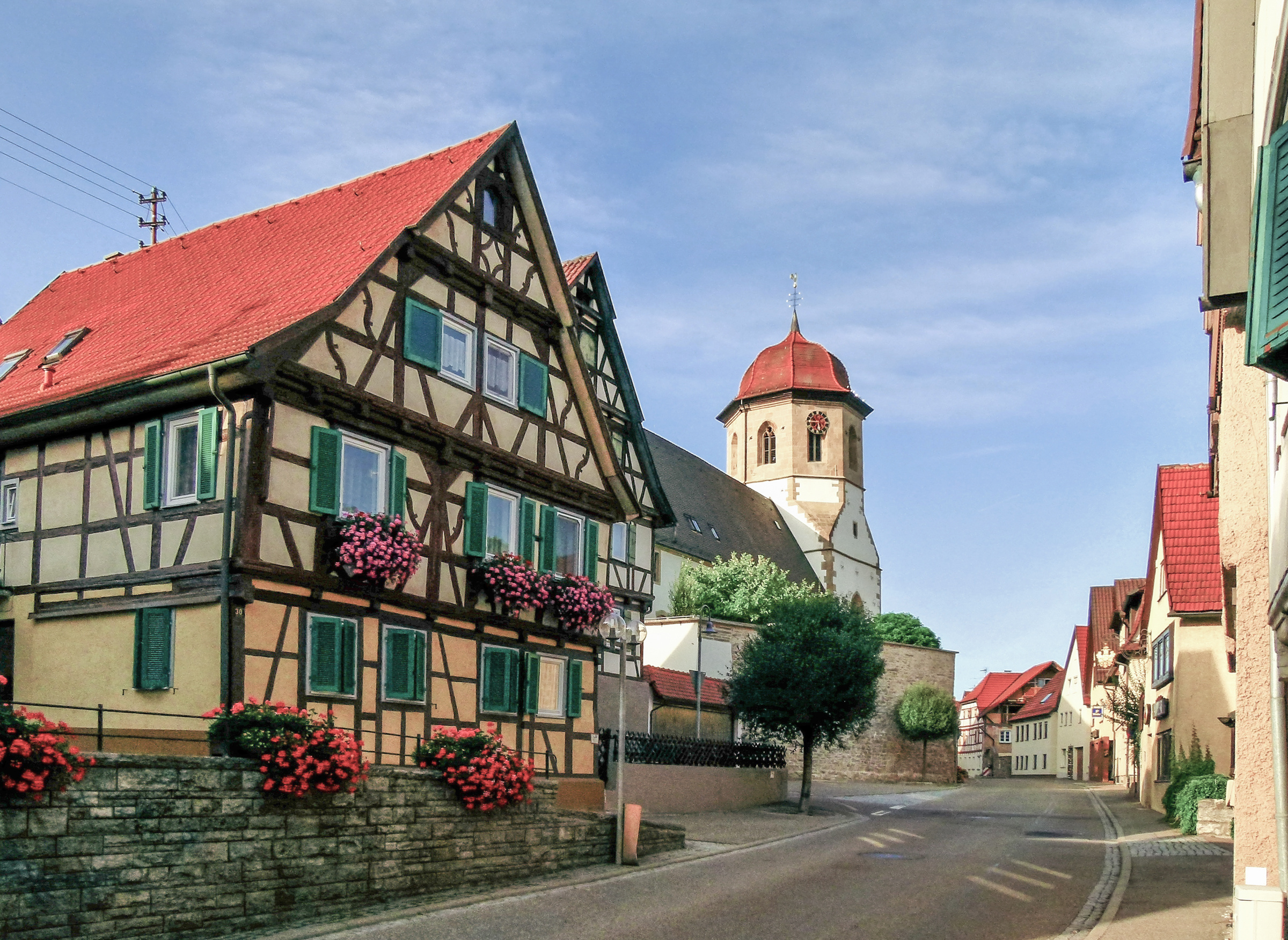 The main street through Oberriexingen in Baden-Württemberg (Germany) with the Church of St. George.